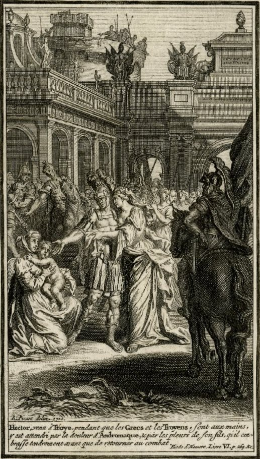 Hector saying farewell to his family; him and Andromache are gazing at their son, held by a servant (engraving by Bernard Picart, 1710/1711, illustration to 'L'Iliade d'Homère traduite en françois', a French translation of the Iliad by Anne Dacier, Paris: Rigaud, 1711)